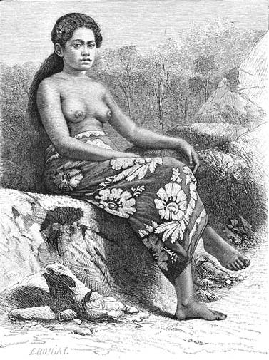 Young girl from Rimatara dressed in a pāreu